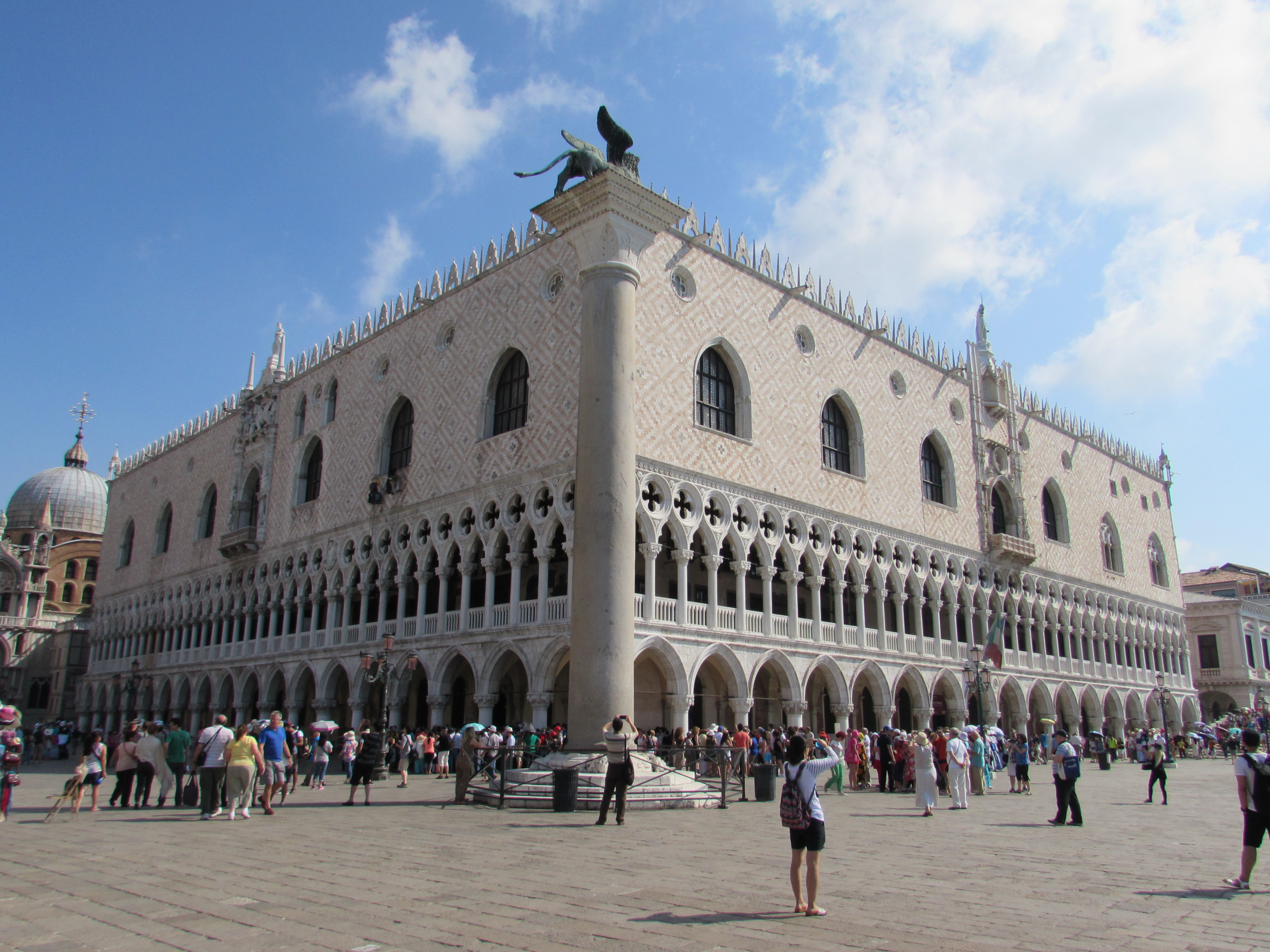 Doge's Palace (Venice)